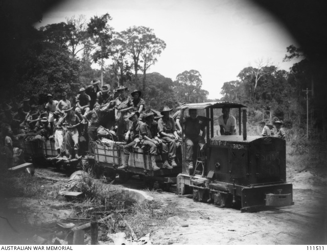 SERIA, BORNEO, 12 JULY 1945. TWO 25 POUNDER GUNS AND MEMBERS OF C TROOP, 16 BATTERY, 2/8 FIELD REGIMENT, RAA, WERE BROUGHT TO SERIA FROM BADAS BY RAILWAY. SHOWN THE TRAIN APPROACHING THE TERMINUS.